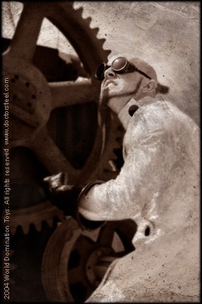 Doctor Steel in his iconic 'mad scientist' attire